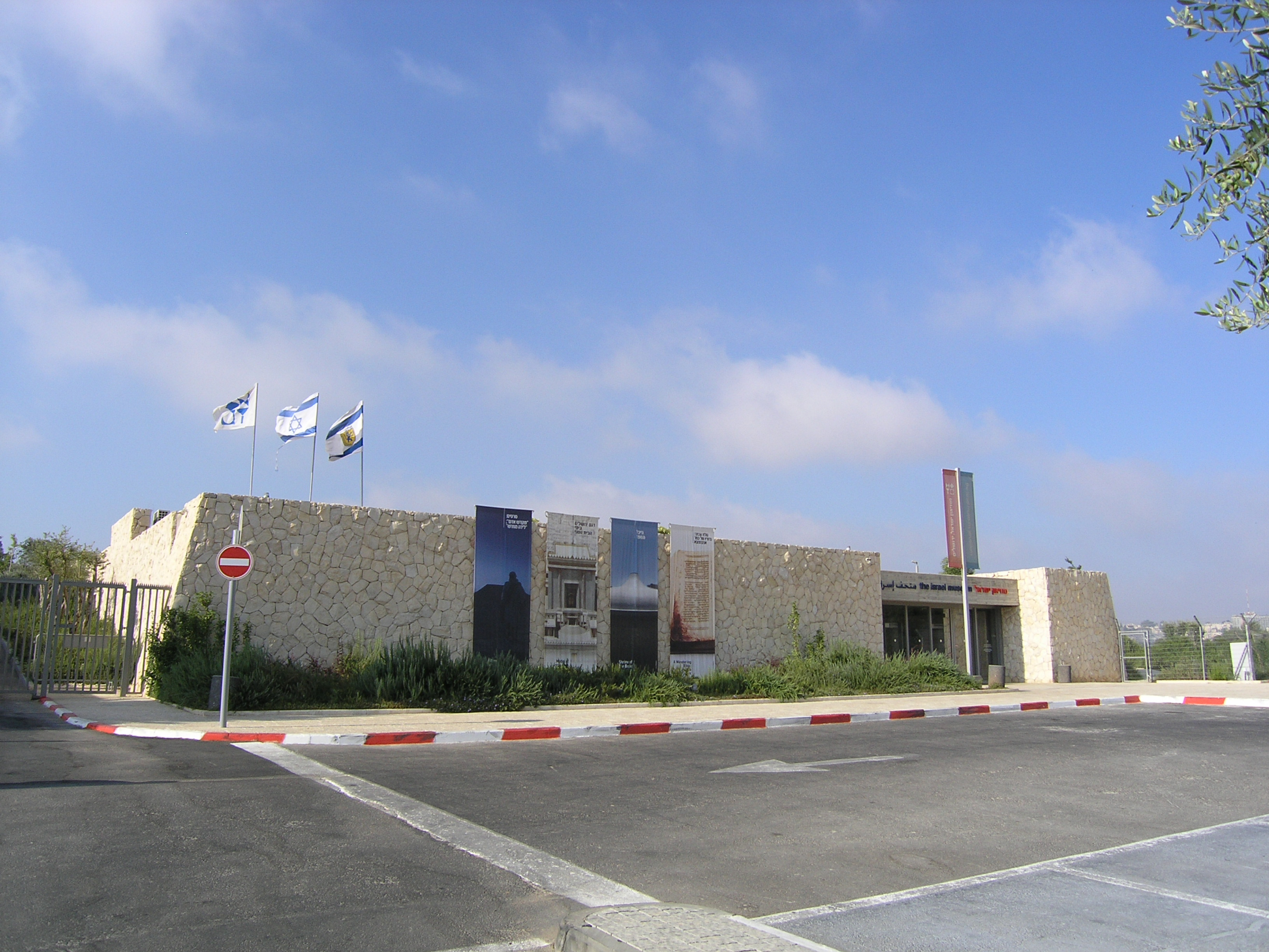 Jerusalem (Israel): Entrance of Israel Museum